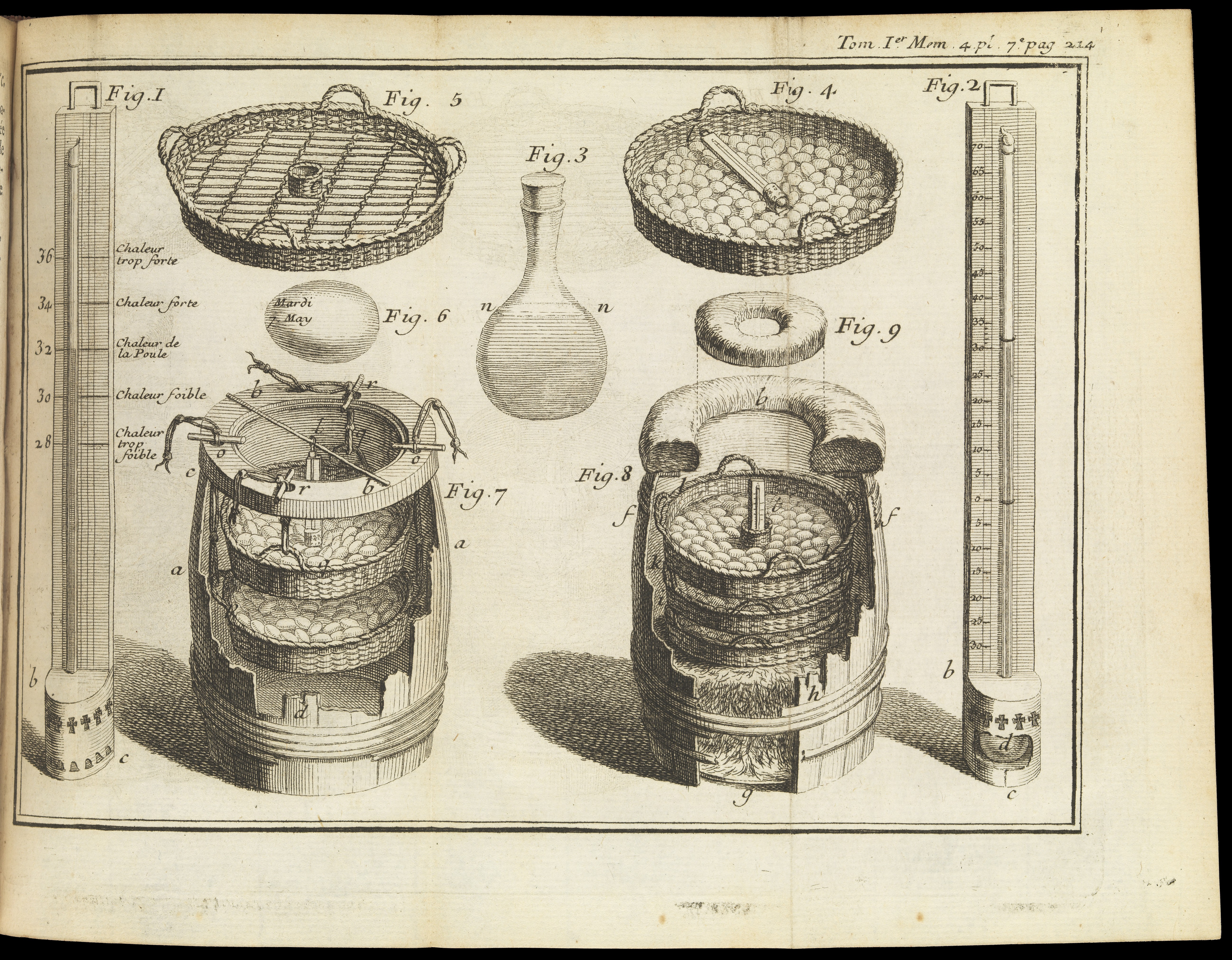 The art of hatching and raising in all seasons domestic birds of all kinds, either by means of the heat of manure, or by means of that of ordinary fire, by M. de Reaumur.) Rare Books Keywords: Poultry; Agriculture